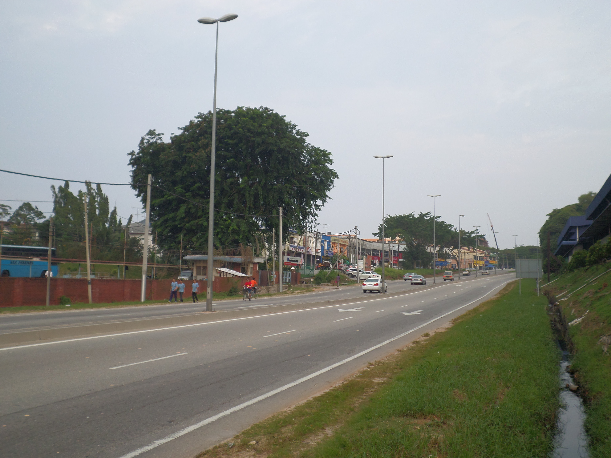 Sri Gading, Batu Pahat, Johor, MalaysiaBahasa Melayu: Sri Gading, Batu Pahat, Johor, Malaysia